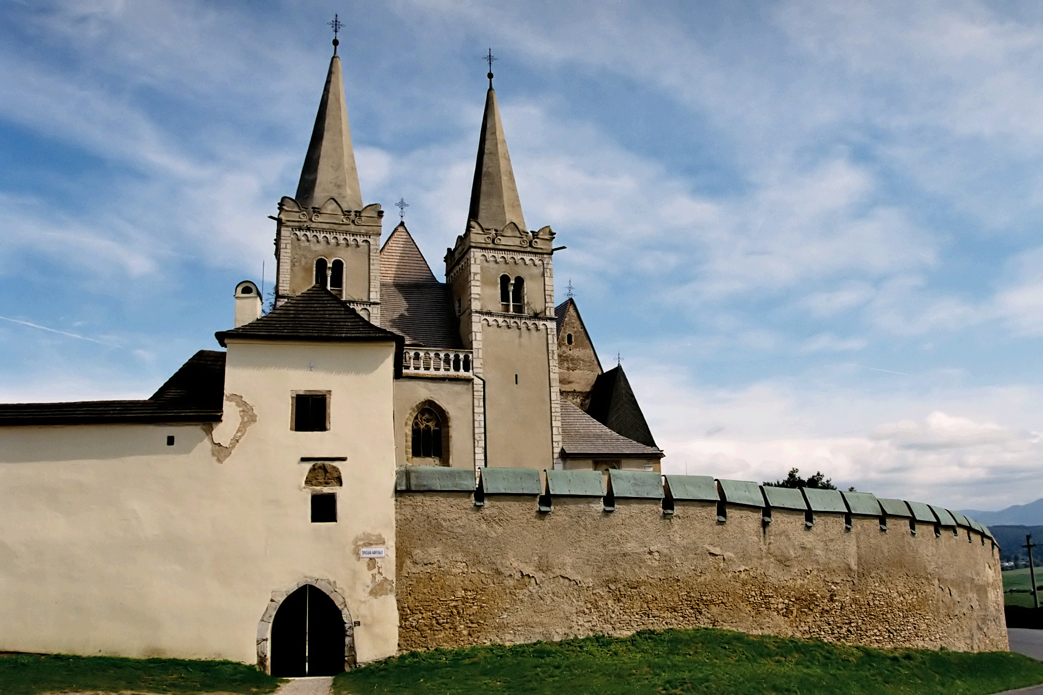 Spišská Kapitula - Zipser Kapitel - Szepeshely This medium shows the protected monument with the number 704-782/0 in the Slovak Republic.